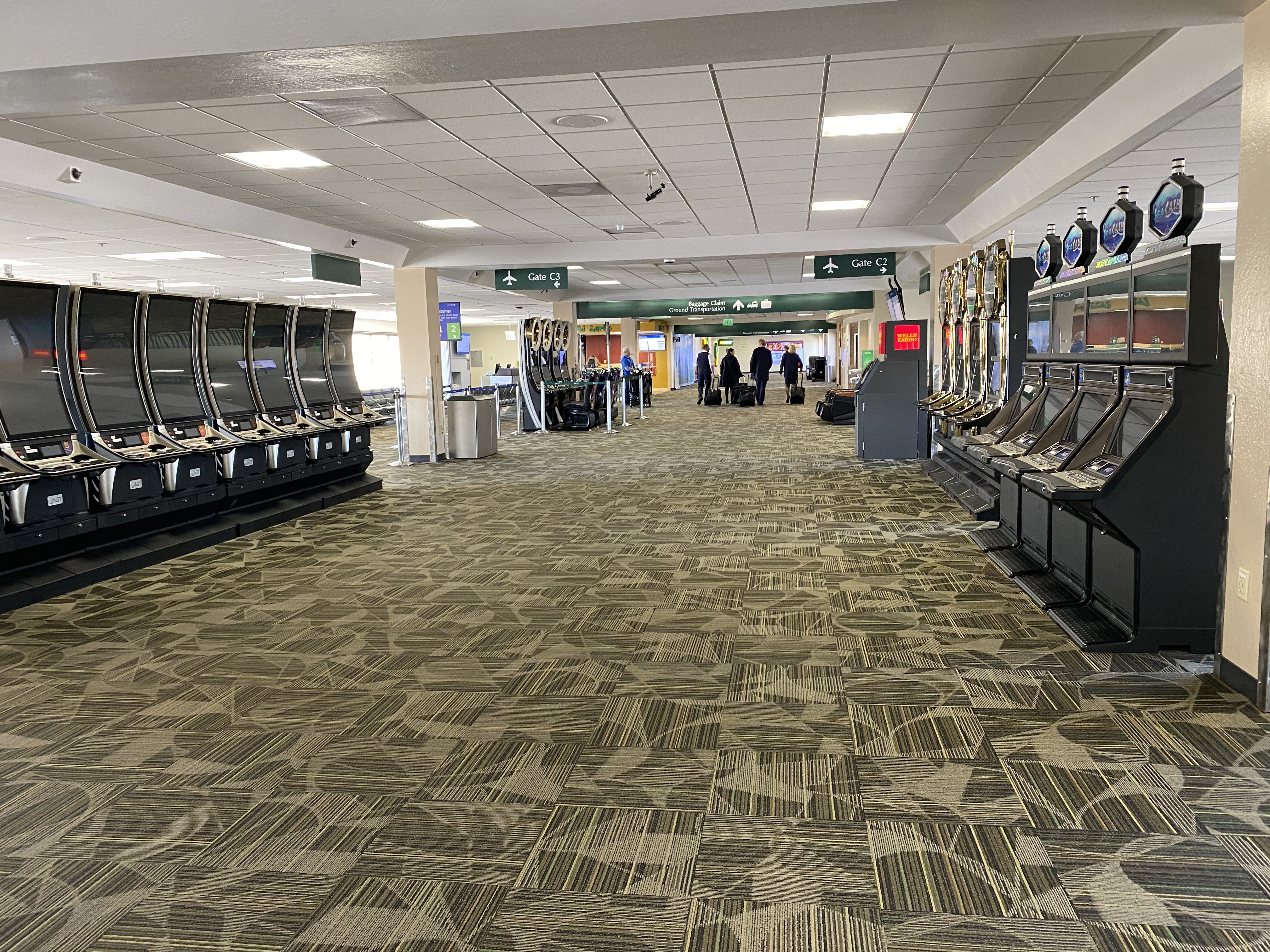 COVID-19 Reno-Tahoe International Airport Passenger Terminal, Nevada.